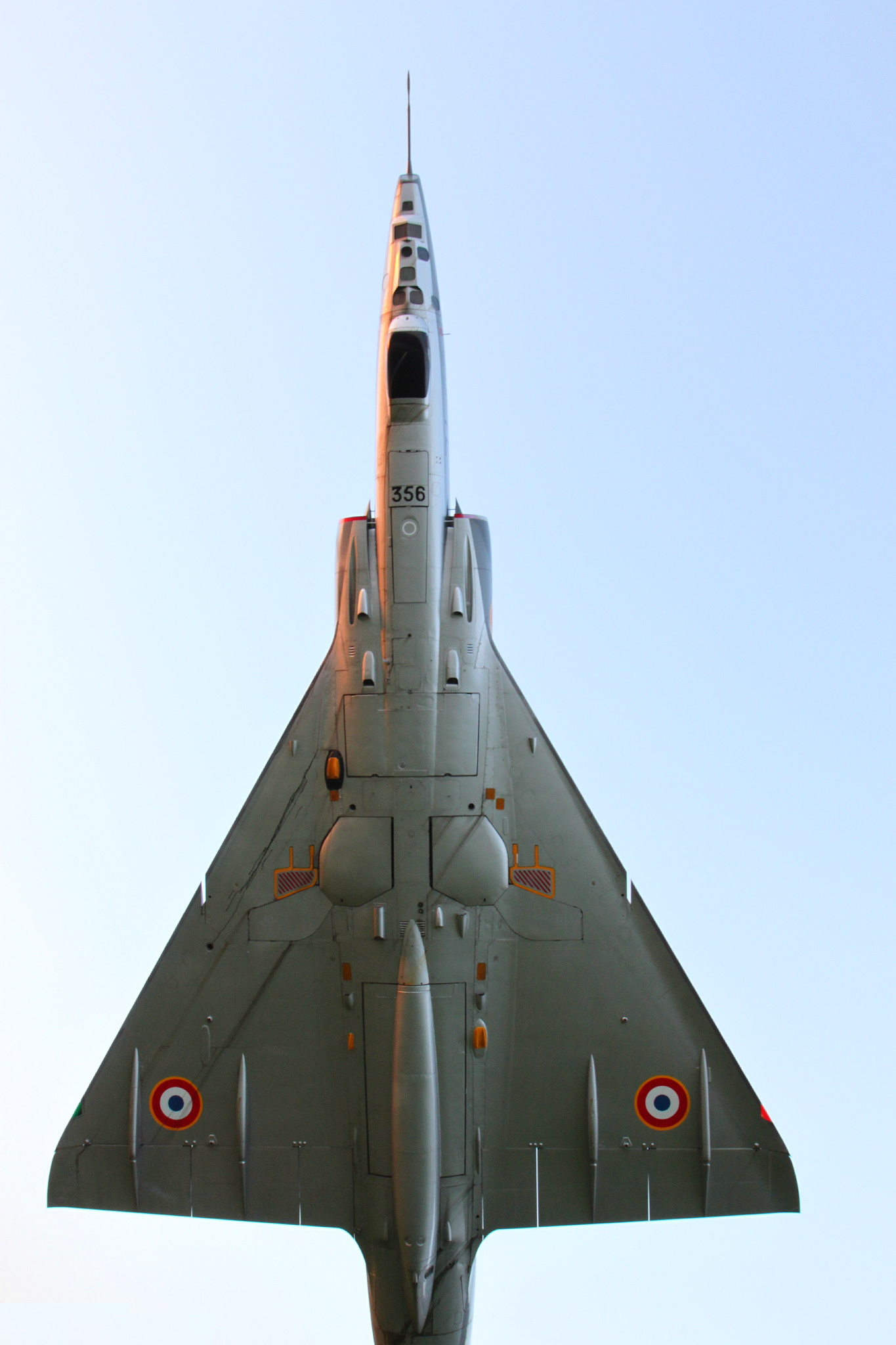 Bottom vue of French Mirage IIIRD n°356, exposed in front of Ambérieux-en-Bugey Air Force Base. It shows marks of reconnaissance squadron "3/33 Moselle", and designation code "33-TE".